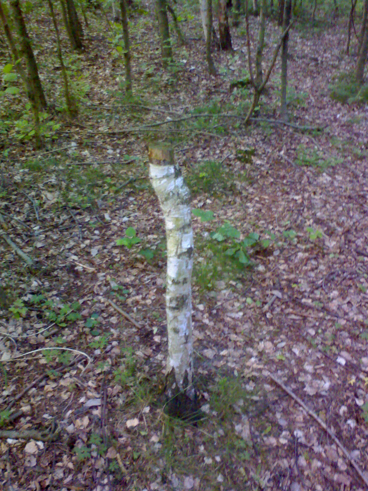 stub of birch tree